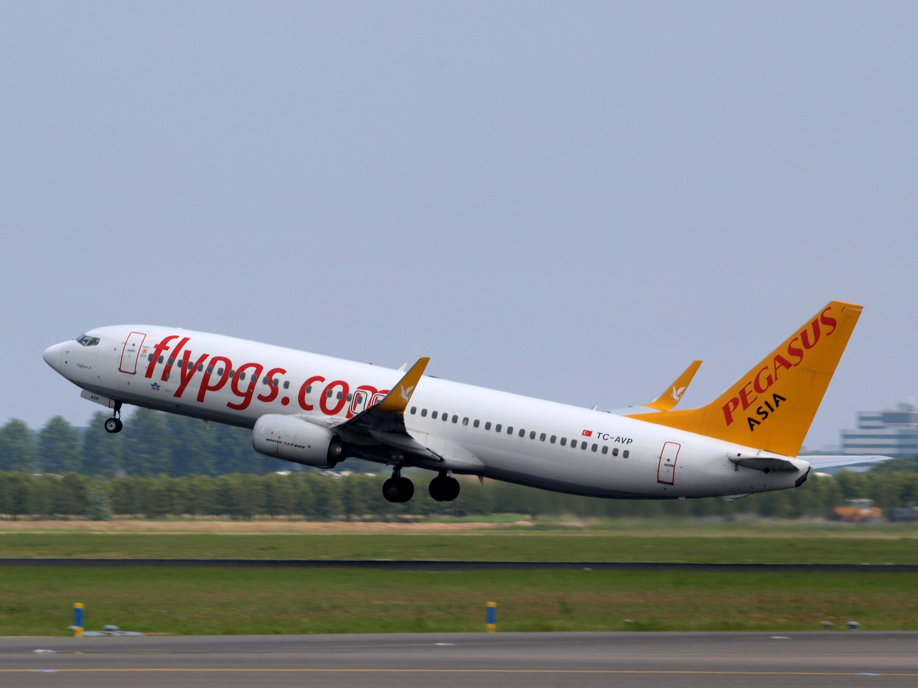 Photographed at Amsterdam airport Schiphol, the Netherlands.